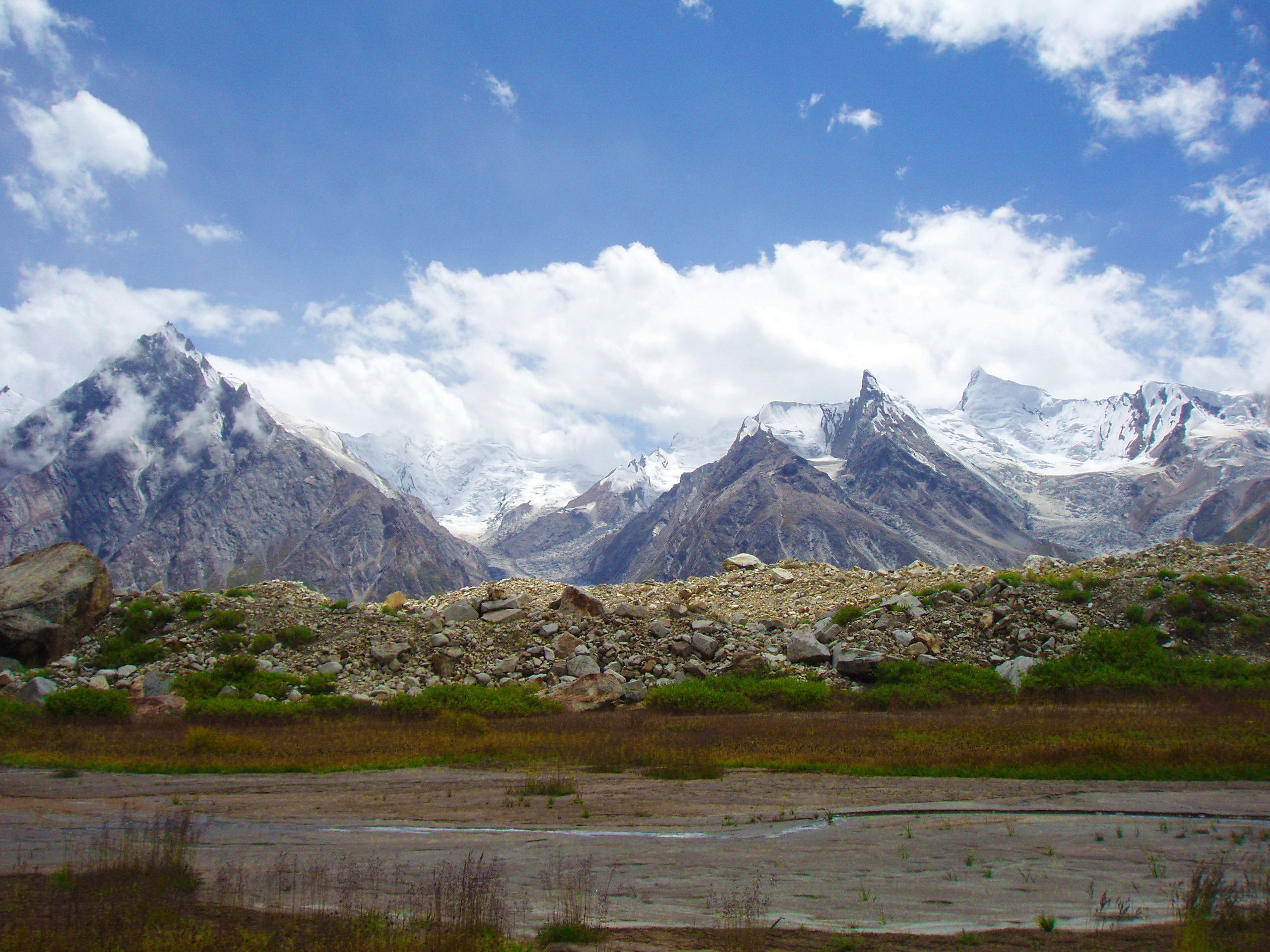 Biafo Glacier, Gilgit, Pakistan